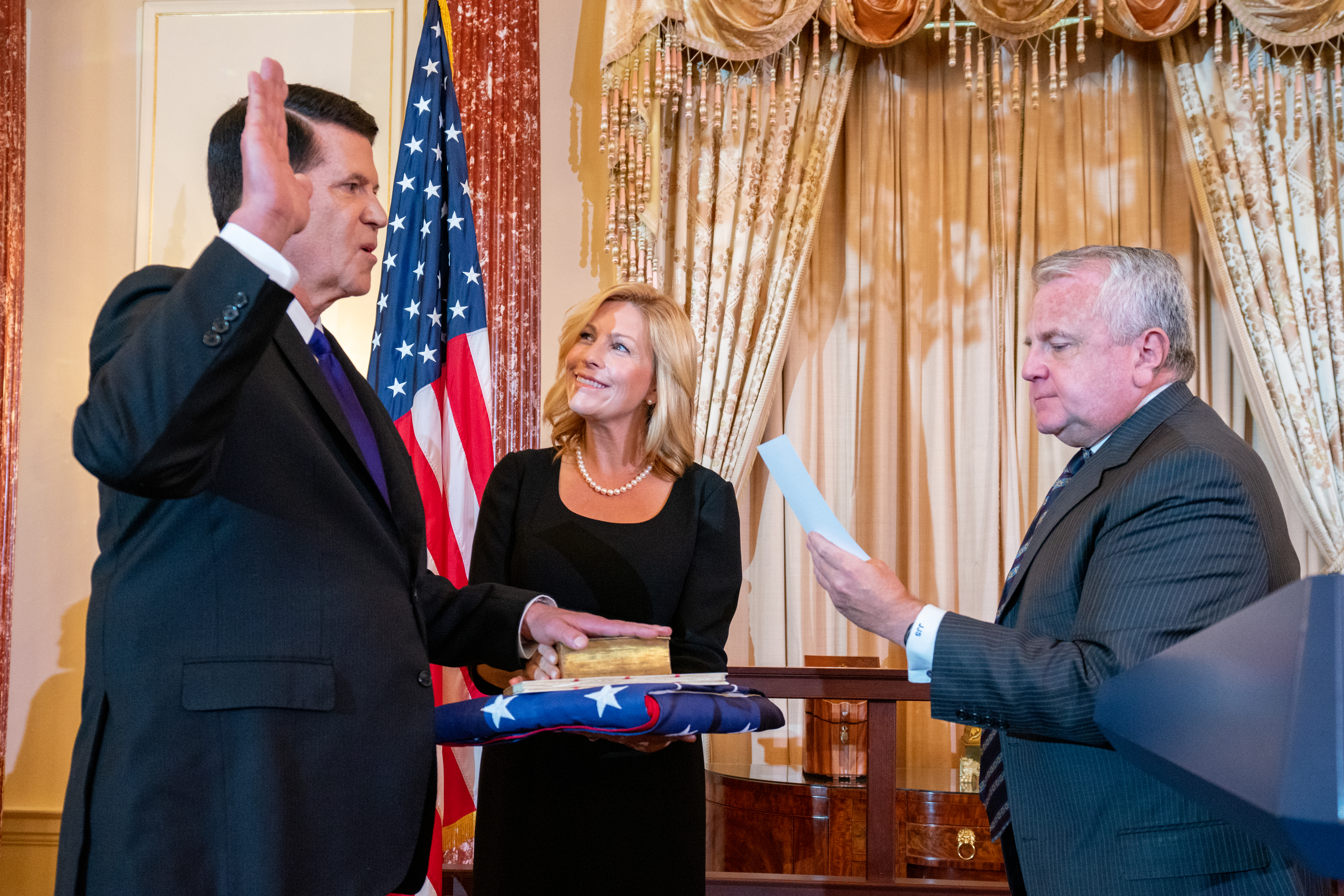 Deputy Secretary of State John Sullivan officiates the ceremonial swearing-in ceremony for Under Secretary of State for Economic Growth, Energy, and the Environment Keith Krach, at the U.S. Department of State in Washington, D.C., on September 16, 2019. [State Department photo by Ron Przysucha/ Public Domain]